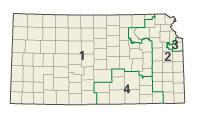 Image adapted from US fed gov't source Category:Congressional districts of Kansas